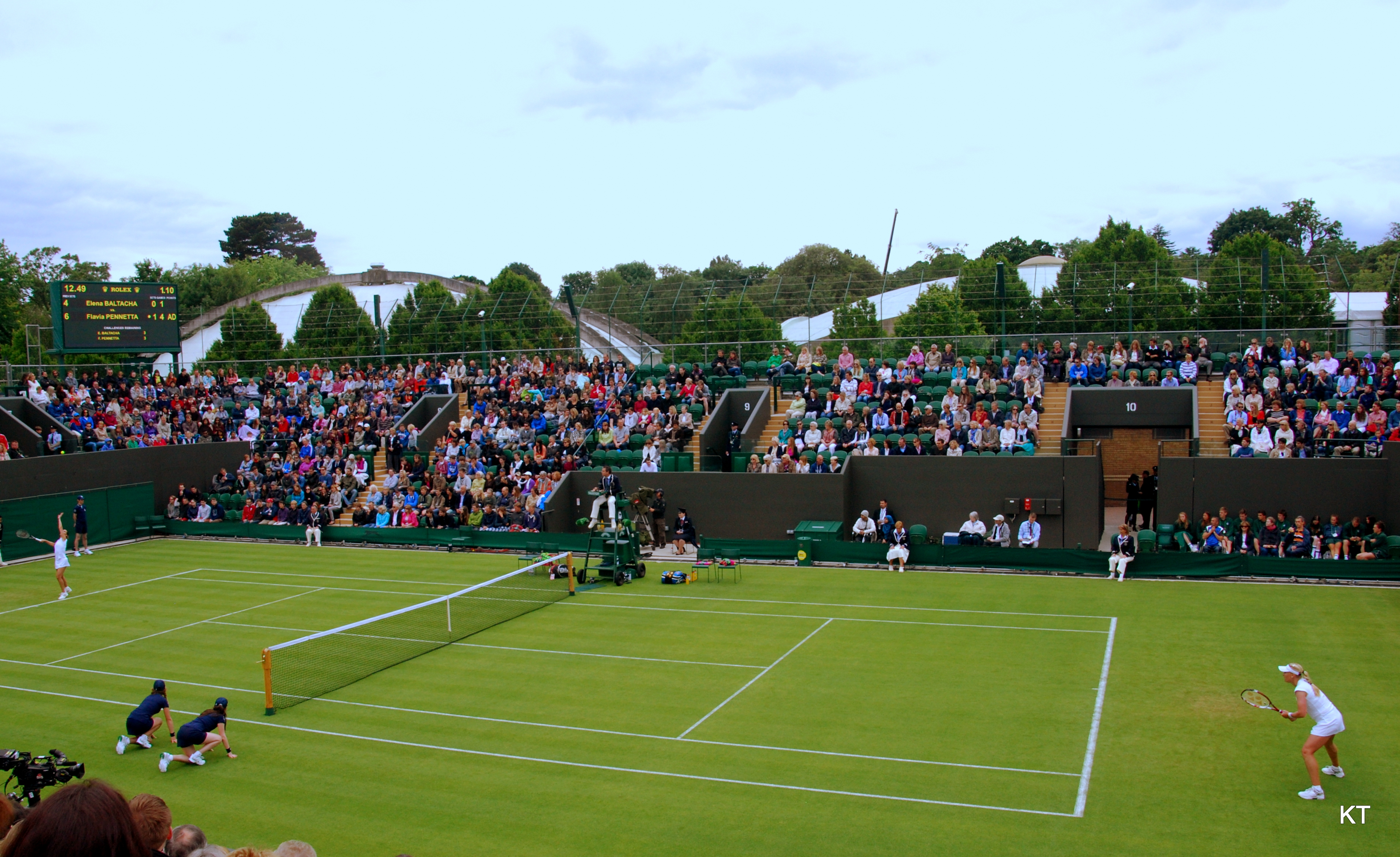 Tickets to Court 3 on Day 1 of Wimbledon 2013. British player Elena Baltacha took on Italy's Flavia Pennetta. Both players had had long injury breaks involving surgery, though Elena's return was more recent. Flavia won this match 6-4, 6-1, and went on to finish 2013 ranked 31. Elena Baltacha announced her retirement from the tour in November 2013.